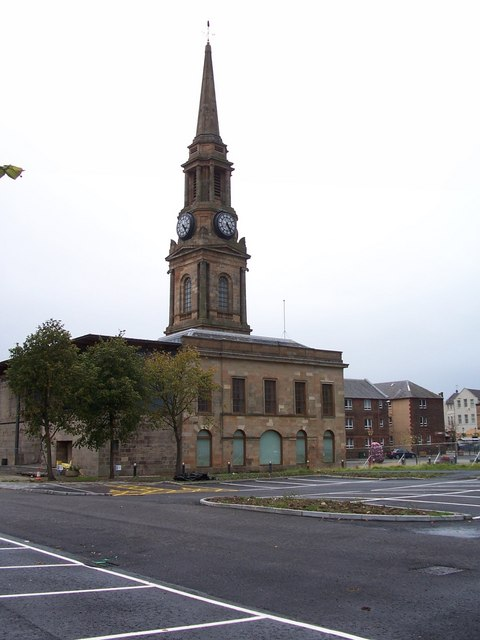 Town Building Port Glasgow. The lawn has been replaced with a car park since this photo was taken six months earlier 337090.